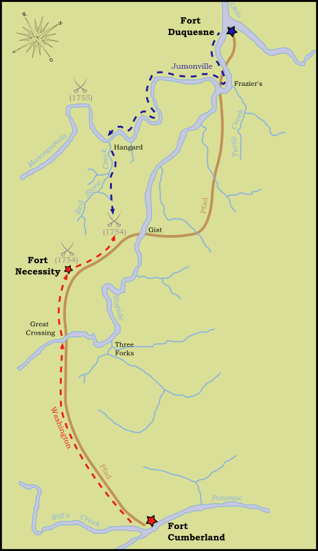 Map (in German language) showing the battles and troop movements in 1754, starting the [:en:French and Indian War